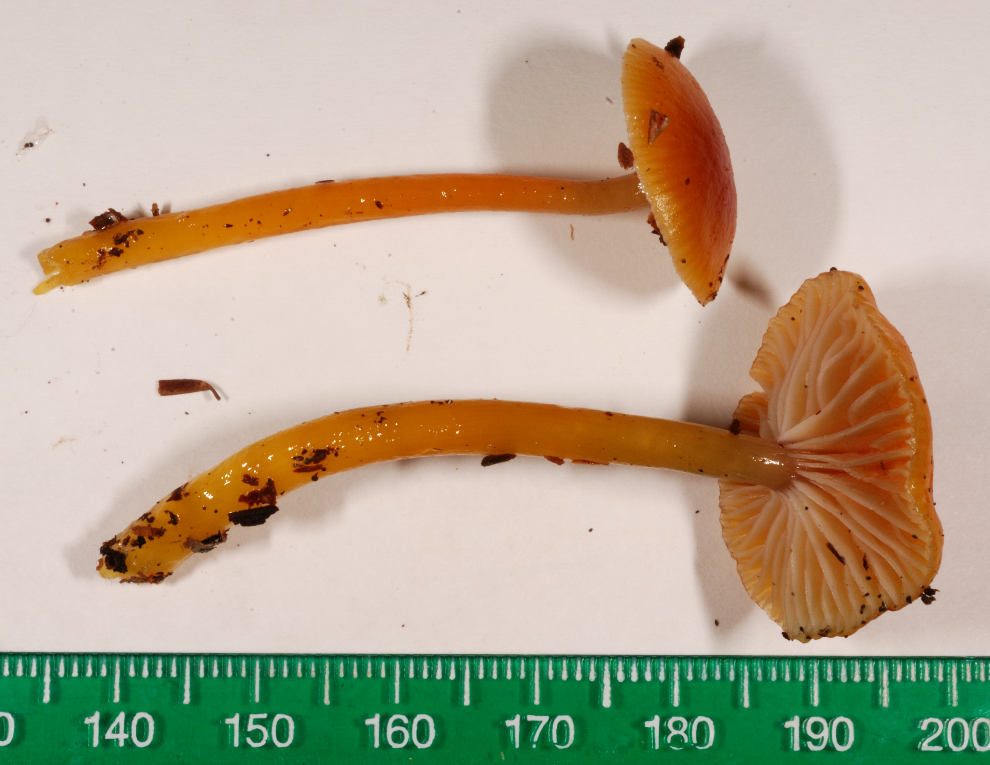 Hygrocybe laeta Location: Sammamish, Washington, USA Observation Notes: Stipe Length: 42mm, 37mmStipe Width: 1.8mm, 1.5mmCap Diameter: 21mm, 14mmPrint: white For more information about this, see the observation page at Mushroom Observer.